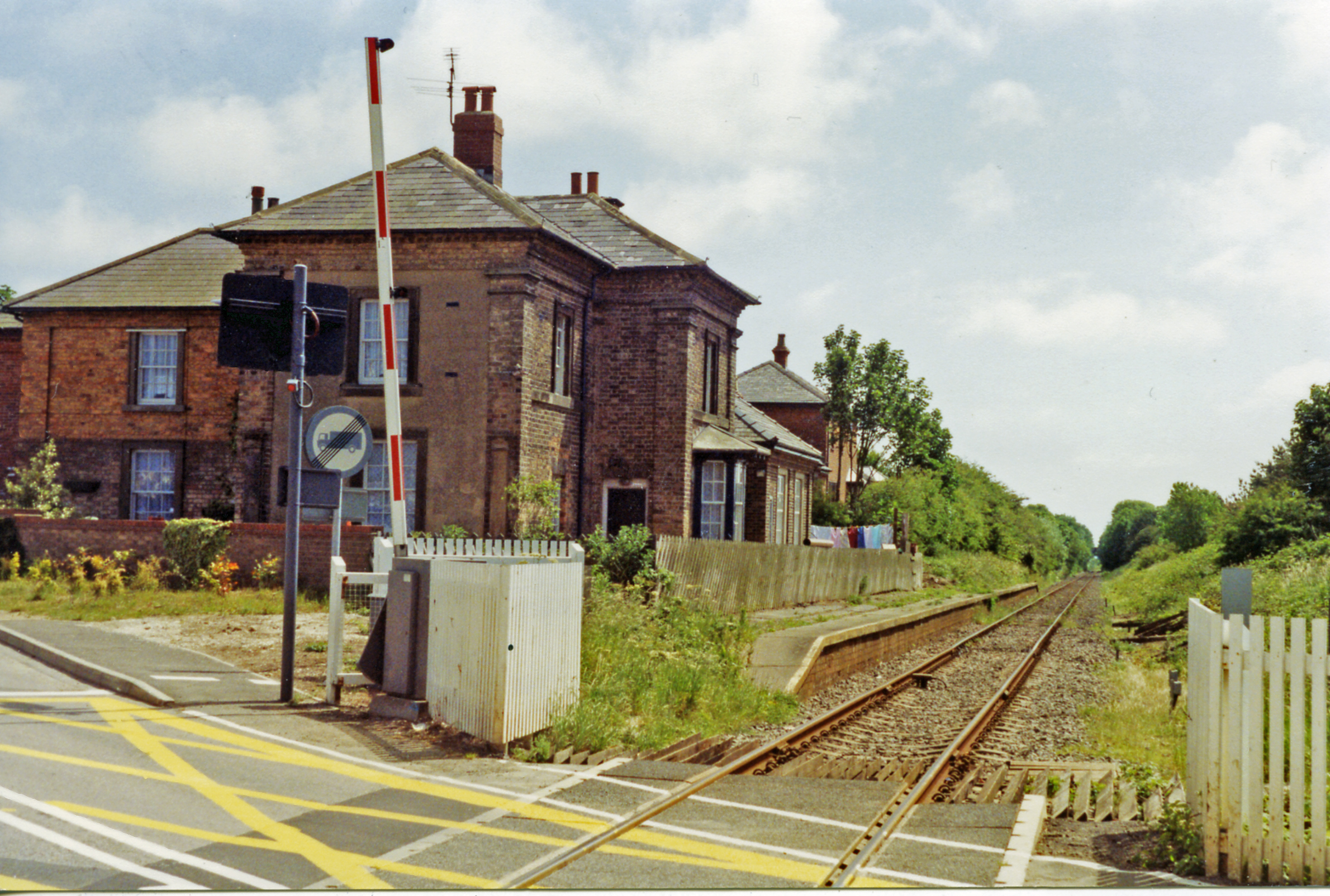 Former Flamborough railway station, Bridlington, East Riding of Yorkshire, England in 1992 View southward, towards Bridlington and Driffield: ex-NER Hull via Beverley and York via Market Weighton - Driffield - Bridlington - Scarborough line. The station was closed 5/1/70, also the York line saw no trains after 14/6/65. The station appears now to be a desirable private house, but trains still rumble by occasionally.